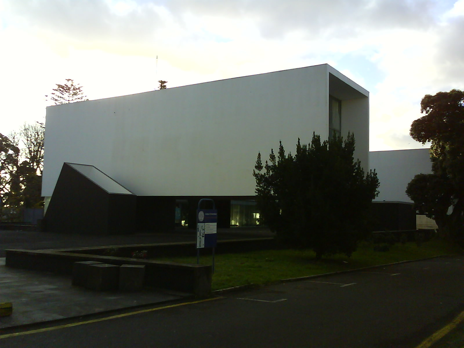 The Aula Magna lecture hall at the University of the Azores, civil parish of São Pedro, municipality of Ponta Delgada (Azores), Portugal